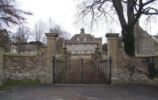 Rudloe Manor until 2000 this was RAF Rudloe Manor, although part of the camp is in private hands the house is still disused.